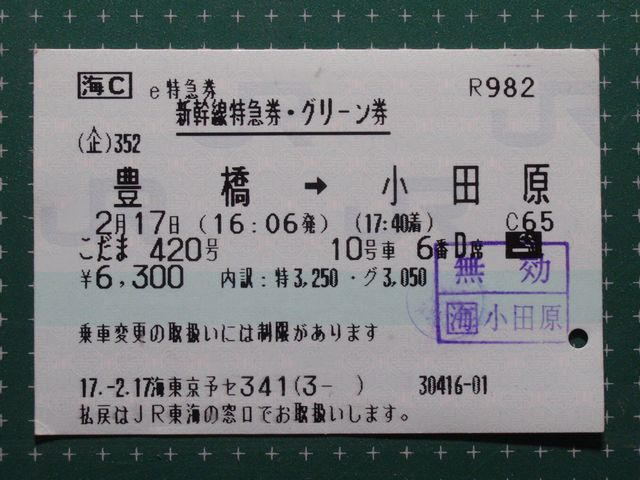 Shinkansen Superexpress ticket of Kodama No.420